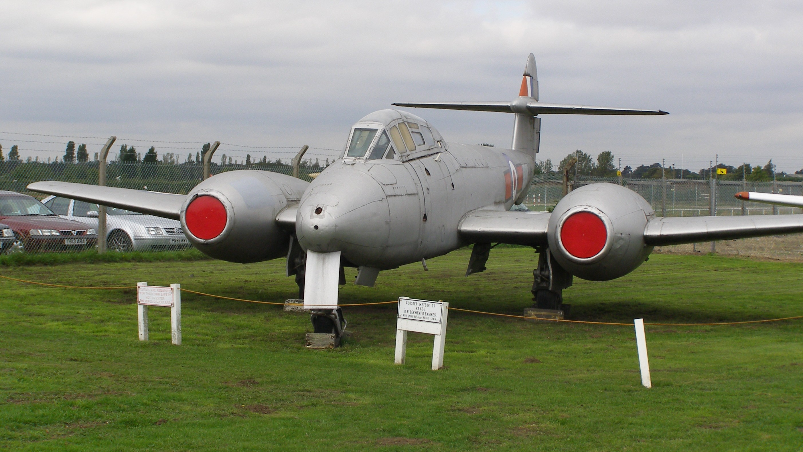 Gloster Meteor T7 at the Newark Air Museum, England